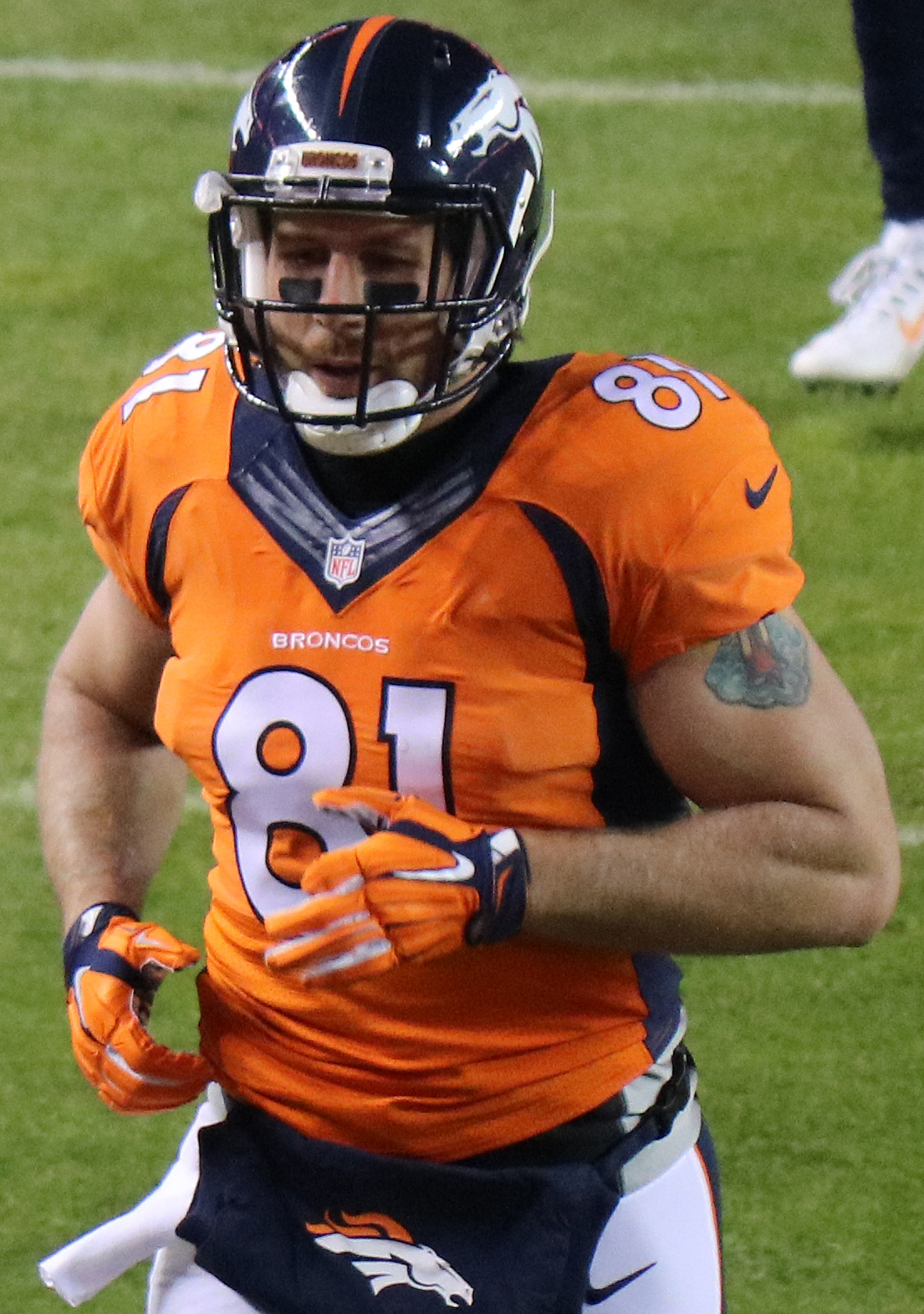 Owen Daniels, a player on the National Football League.